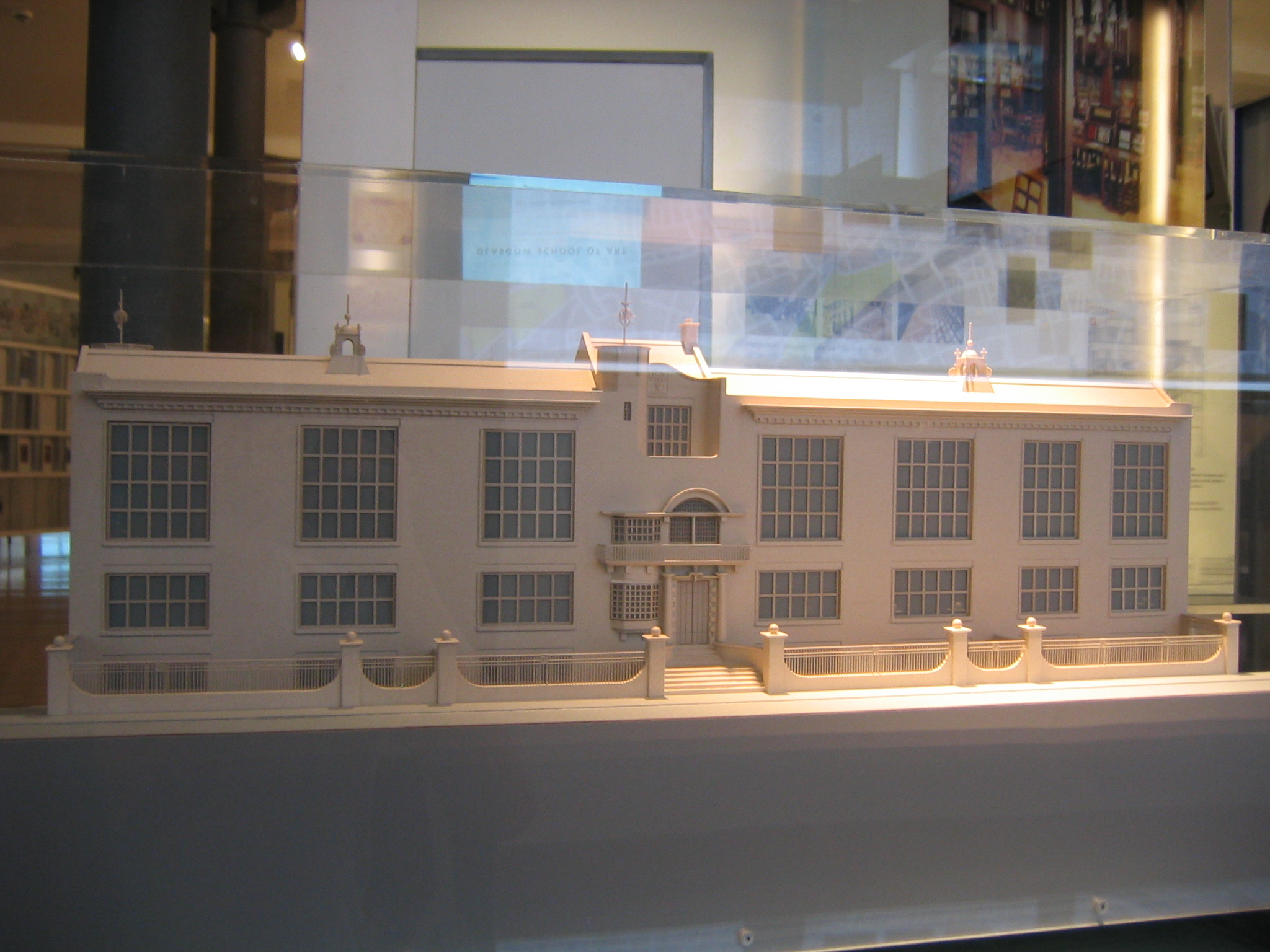 description:Architectural model of the Glasgow School of Art. photographer: Alistair McMillan photographer location:Glasgow, Scotland flickr_url: [1]